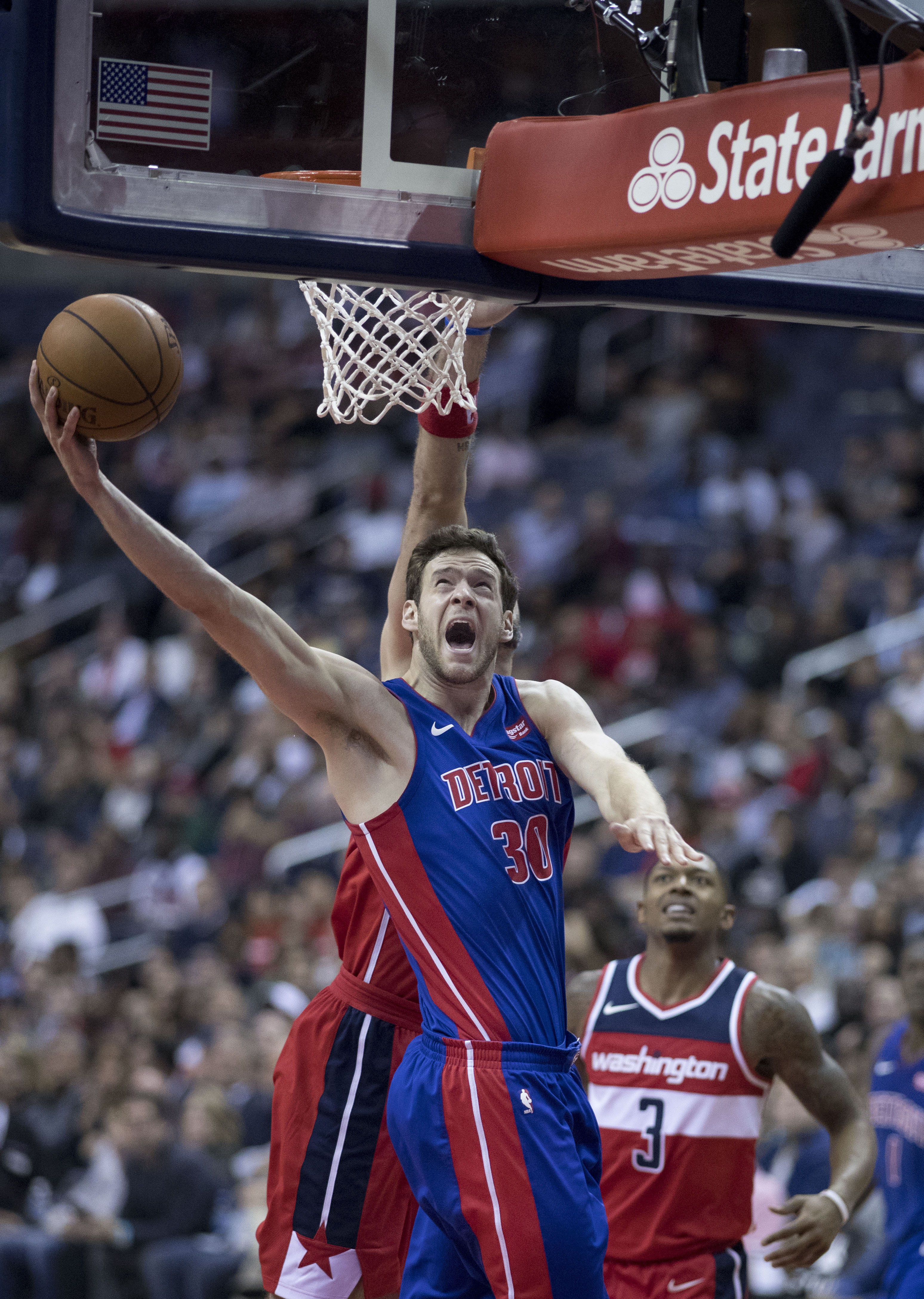 Pistons at Wizards 10/20/17